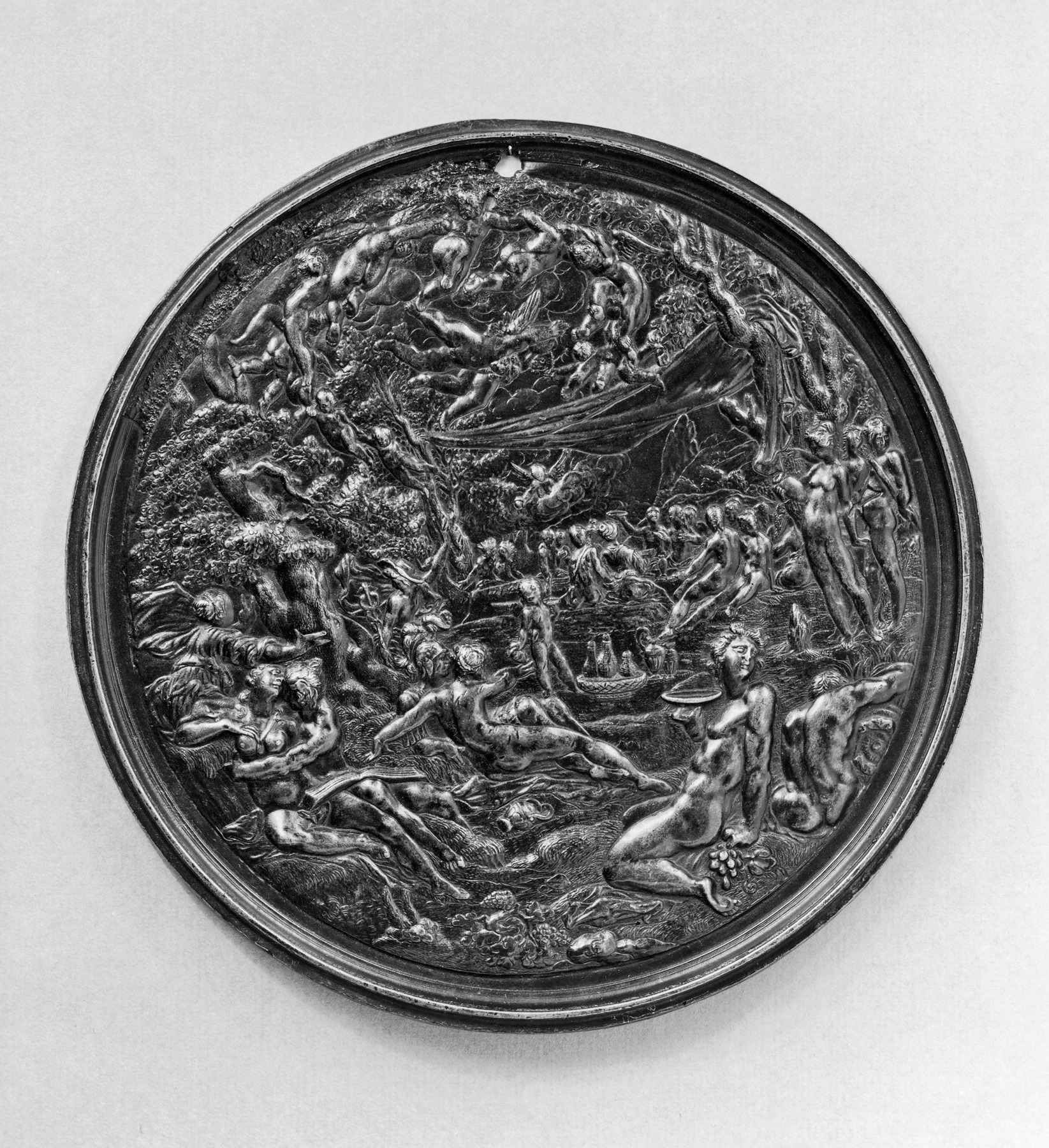 The Olympian gods celebrate the wedding of Peleus and Thetis. In the foreground, amorous couples embrace and toast the young couple while flying cupids fill the air. The seated youth on the right with a cluster of grapes is Bacchus, god of wine. Eris, goddess of discord, arrives uninvited at the left. Into the midst of the revelers, she will throw a golden apple inscribed "to the fairest," leading to the Judgment of Paris, and eventually to the Trojan War. The exquisitely choreographed scene is based on a composition by the Utrecht painter Abraham Bloemaert (1566-1651), translated into a circular relief by the silversmith Adam van Vianen.